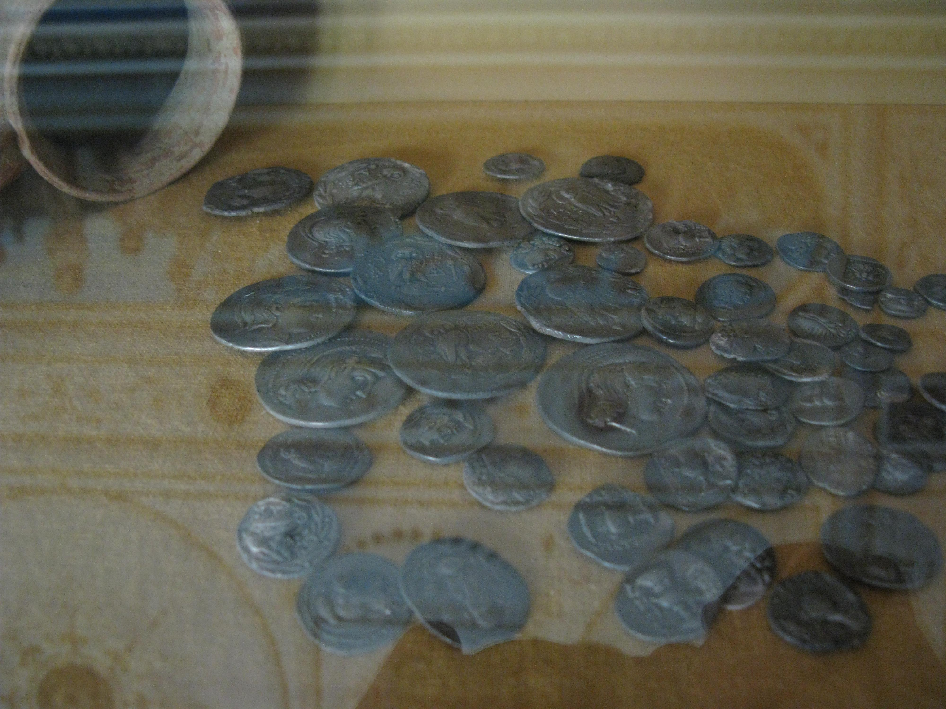 Hoard form Naxos, 1926. Burial date: circa 150 BC. Composition: 72 silver denominations and 2 bronze coins found in a clay vase. Numismatic Museum, Athens, Greece.